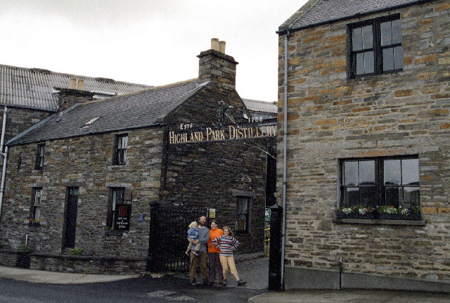 Highland Park distillery. Northernmost distillery in the UK, and recently voted number 1 scotch! A beautiful assemblage of old buildings, the distillery has seen few external changes since its foundation over two centuries ago.